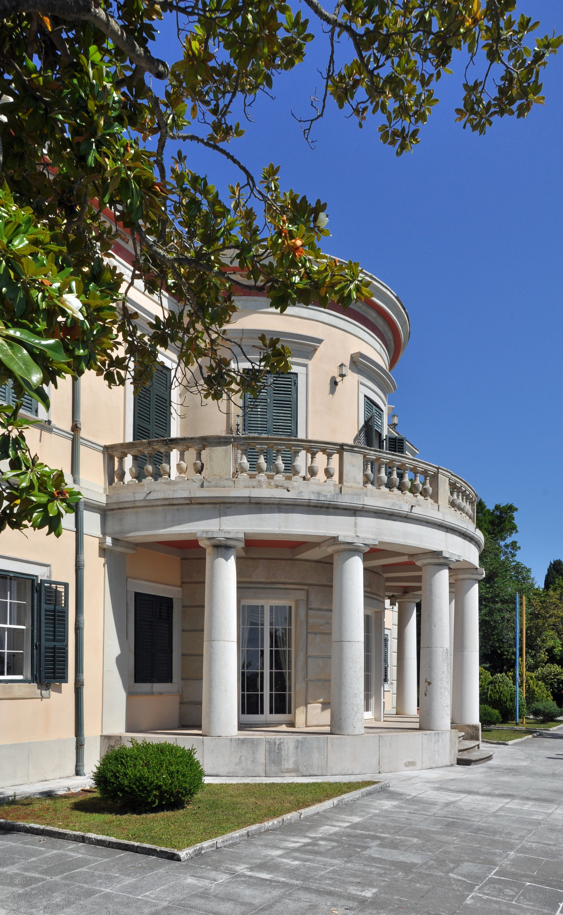 Corfu (Greece): former royal villa 'Mon Repos'